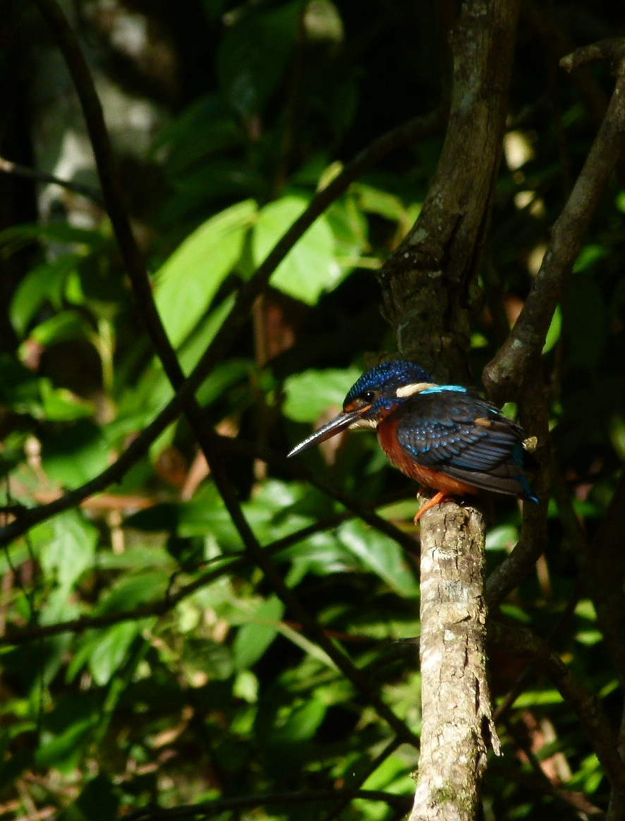 Alcedo meninting, Biligirirangan Hills (a new record for the region) - 2 December 2012